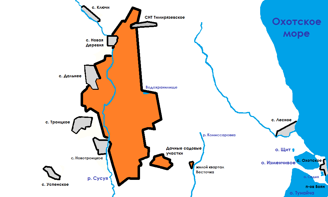 Map of Yuzhno-Sakhalinsk (Russia)